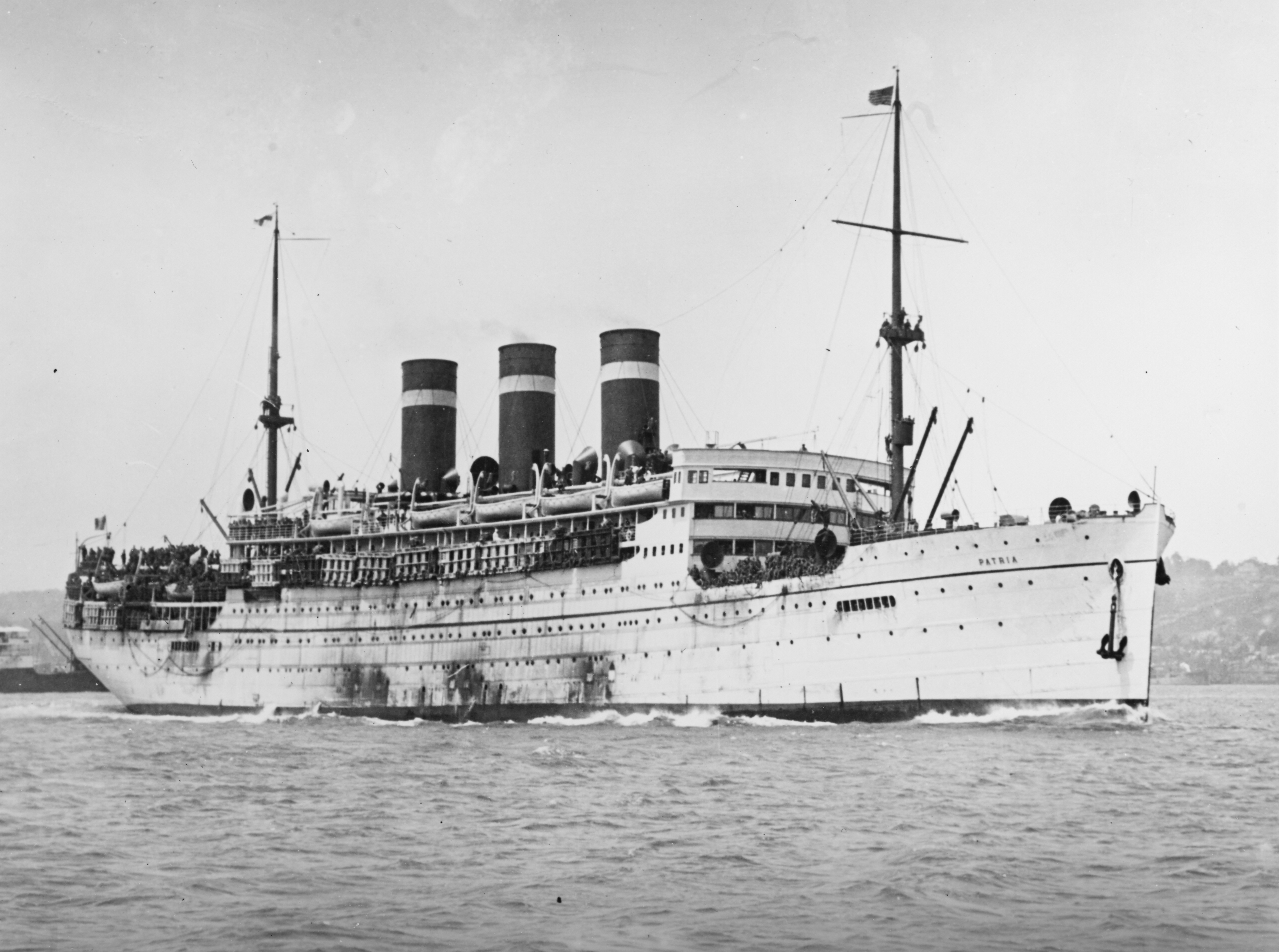 " Photographed in 1918-1919, while transporting American troops." This version cropped and cleaned by uploader.